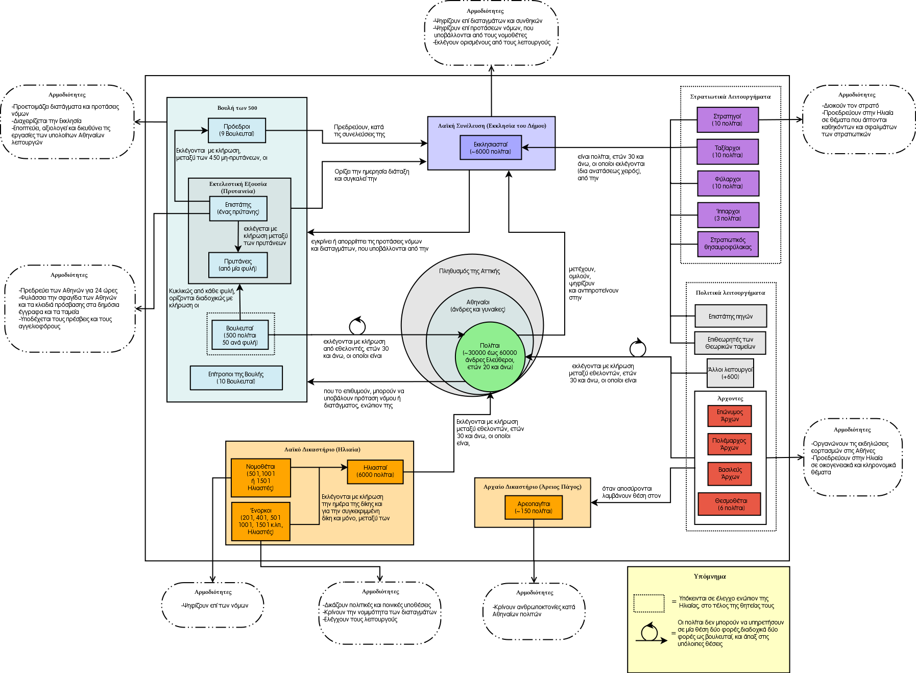 translated chart, exported in png format